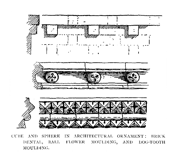 cube and sphere in medieval architectural ornament: brick dental moulding, ball flower moulding, and dog-tooth moulding